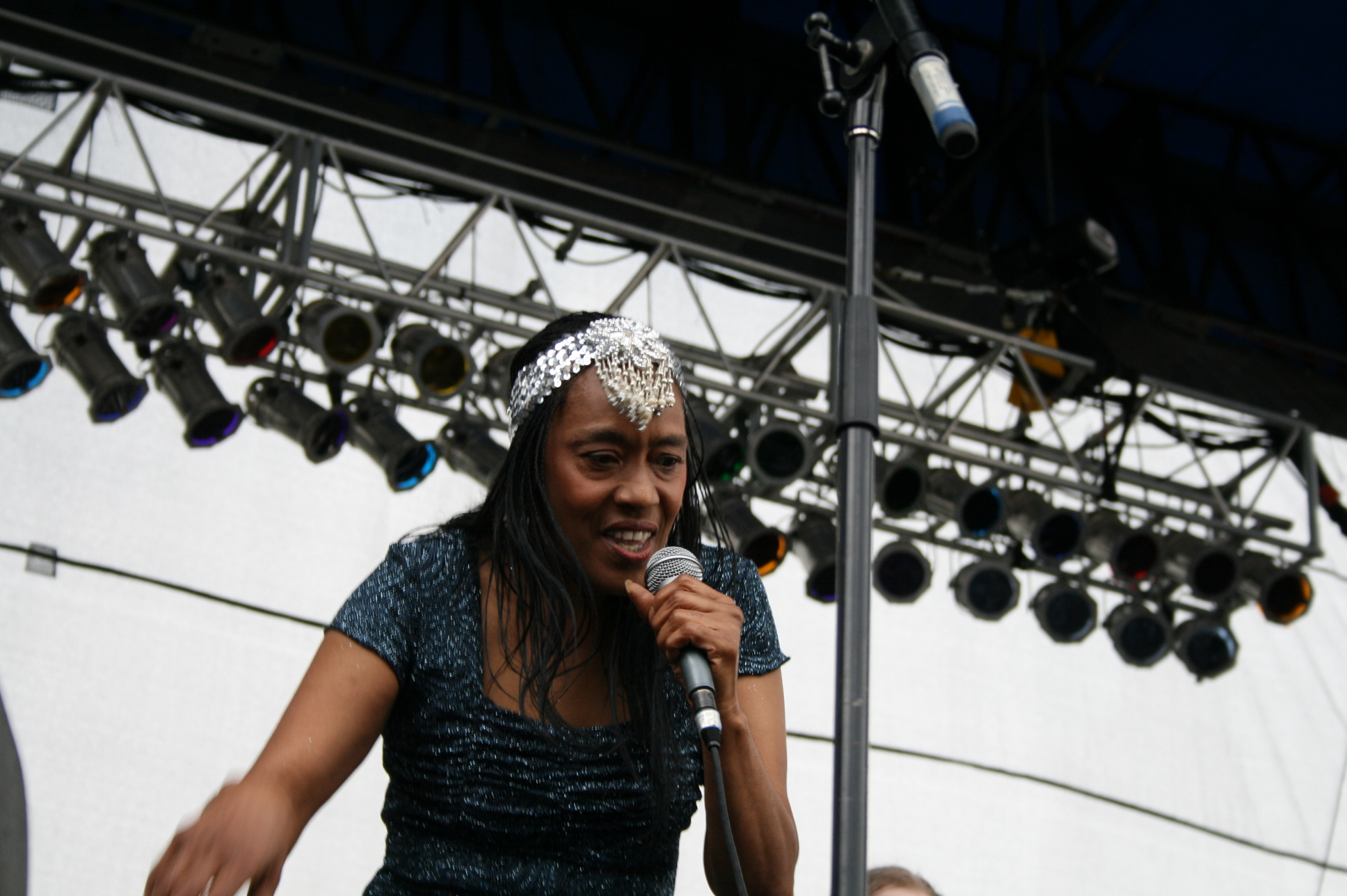 Ann Peebles, an American singer-songwriter performing at the Beale Street Music Festival in 2007.